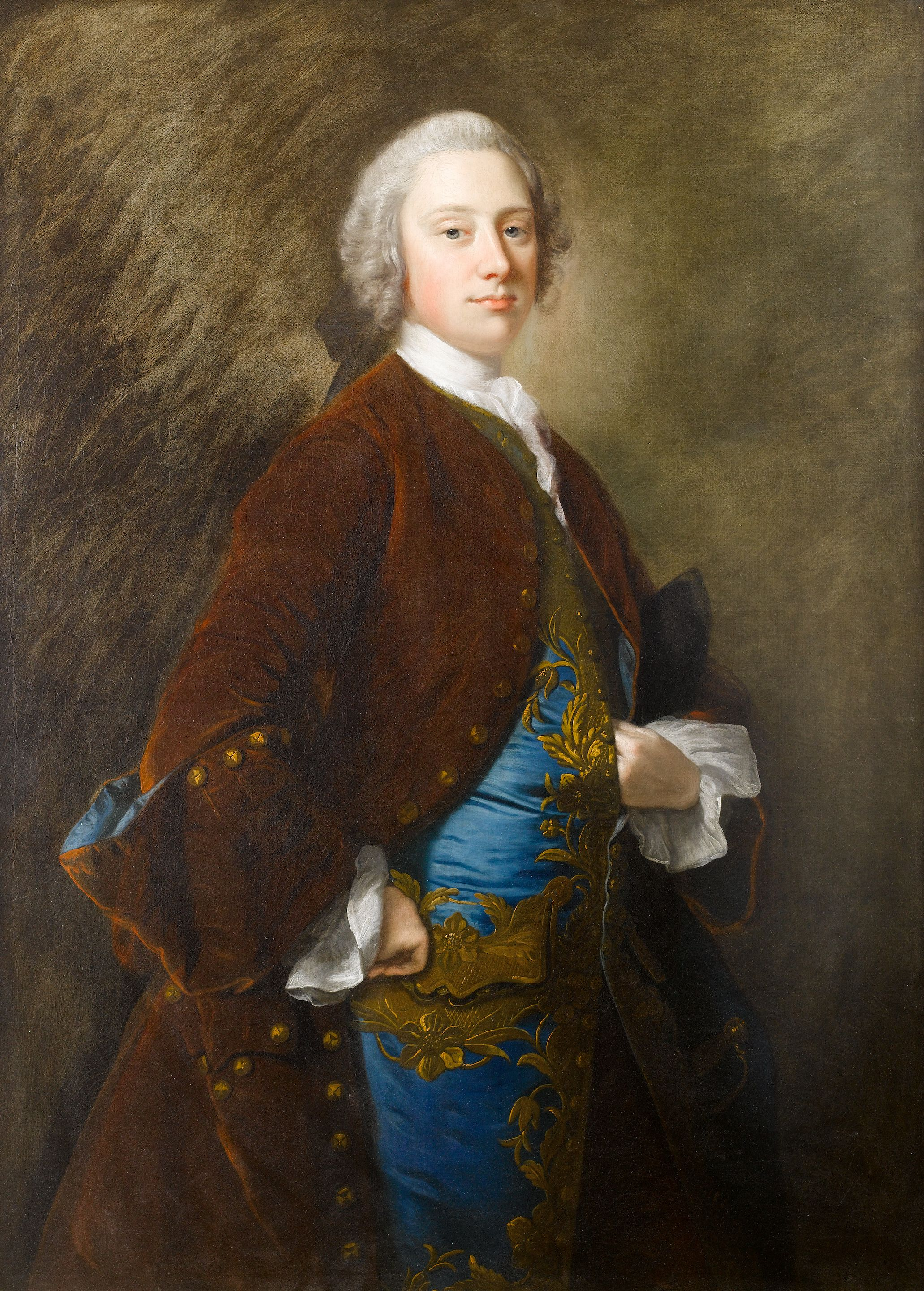 Painting of Assheton Curzon by Thomas Hudson